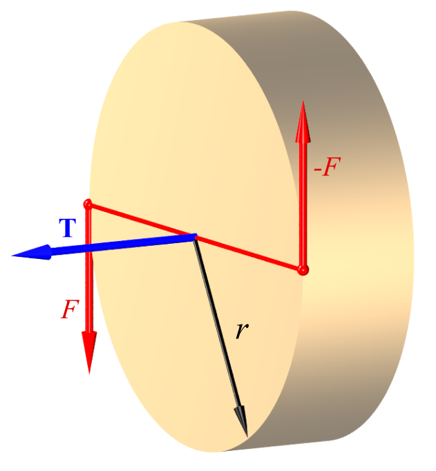 Work and torque